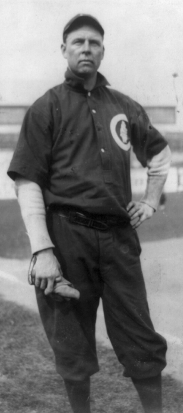 Mordecai Brown (1876-1948), American Major League Baseball pitcher